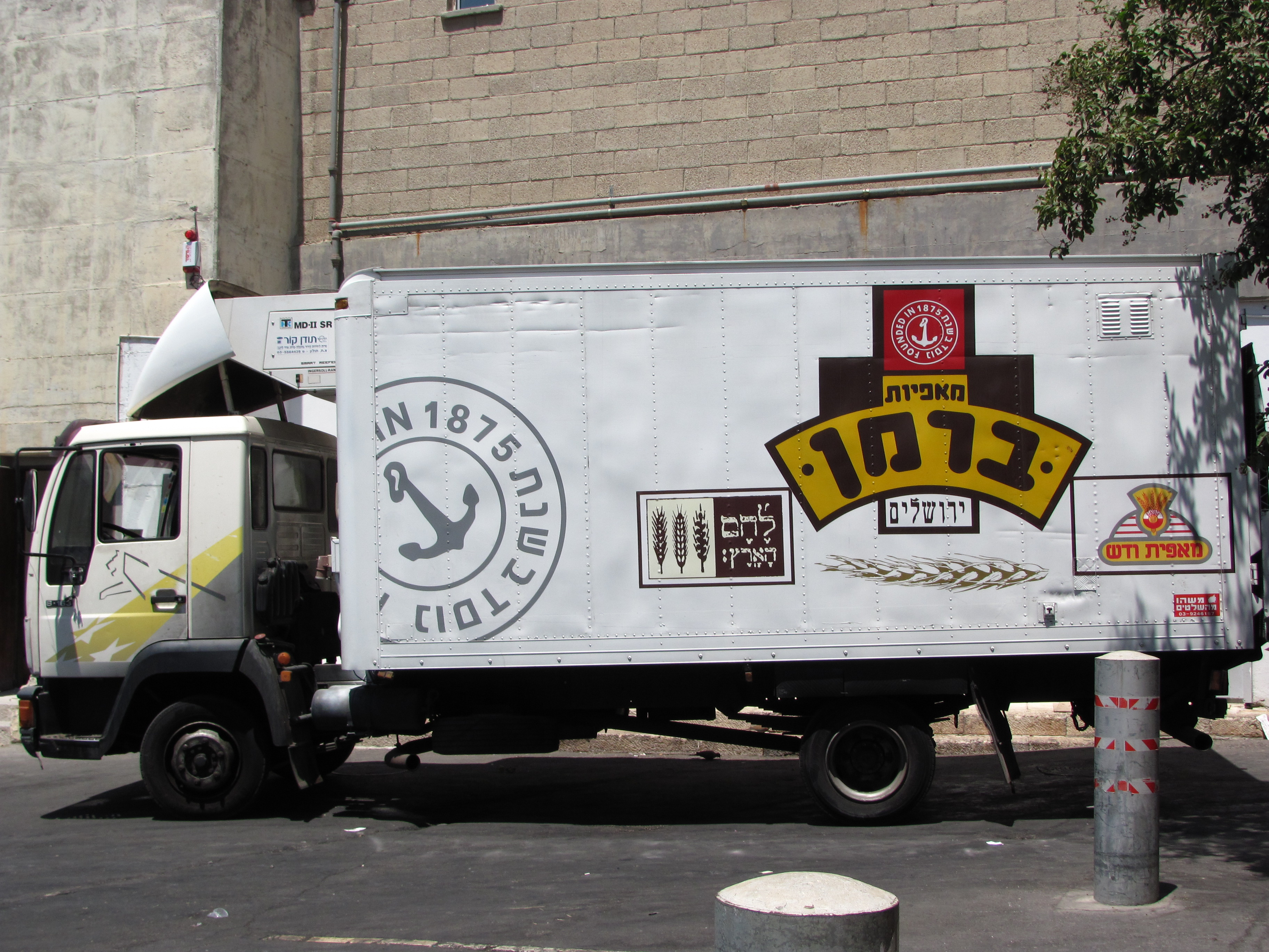 Berman's Bakery truck parked in Givat Shaul, Jerusalem, displaying the company's logo (Berman's Bakery Jerusalem), date of founding (1875), and company-owned bakeries (Lechem HaAretz and Vadash Bakery).